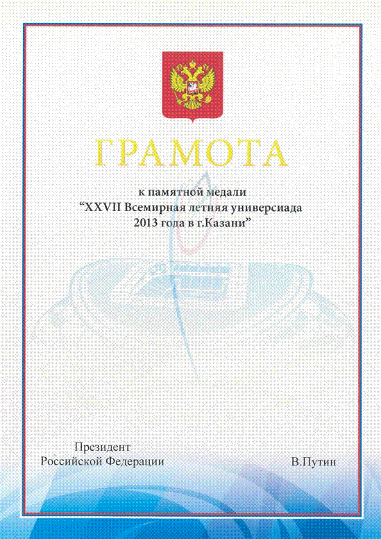 Commemorative medal XXVII World Summer Universiade 2013 in Kazan - charter - Order of the President of the Russian Federation dated August 16, 2013 № 311-p "On the establishment of the commemorative medal" XXVII World Summer Universiade 2013 in Kazan '"